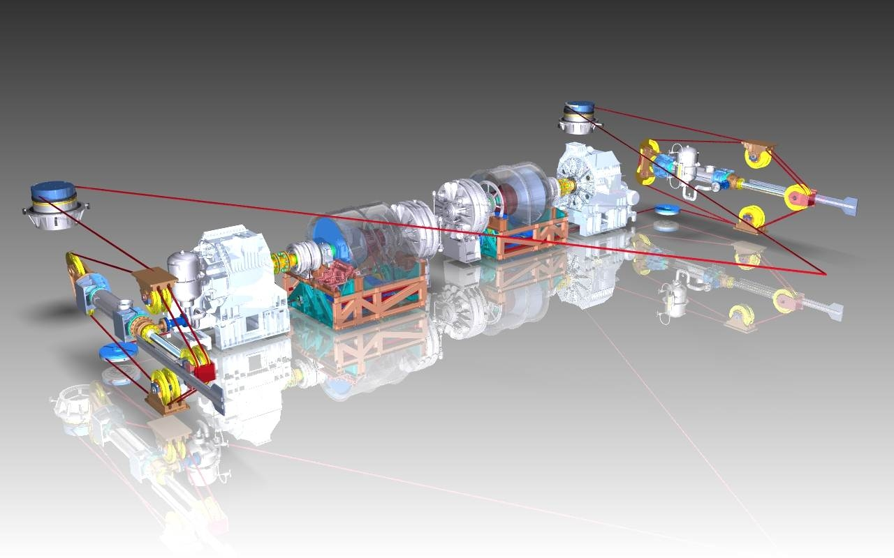 Advance Arresting Gear for US Navy CVN78 Ford Carriers